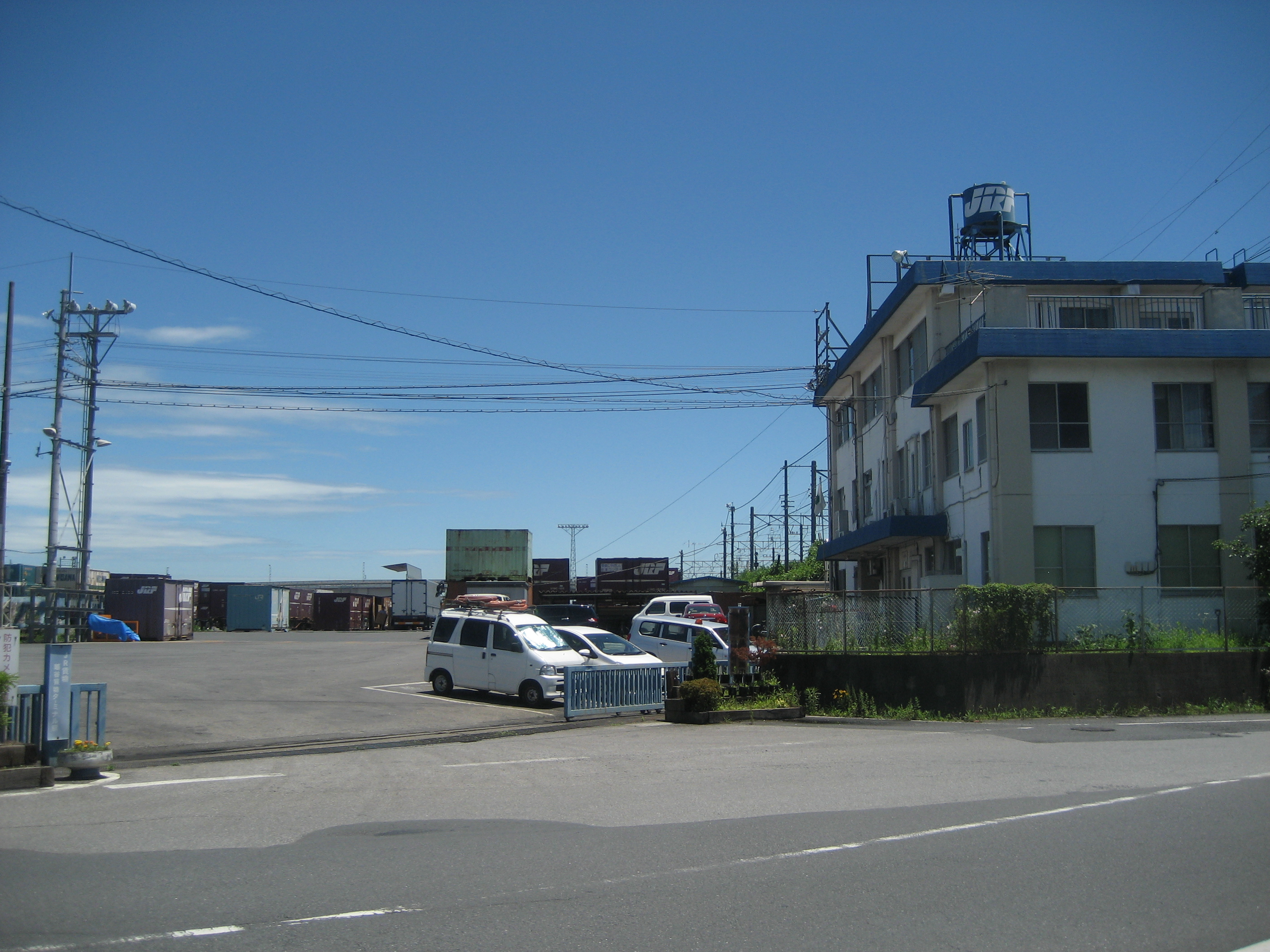 Koshigaya Freight Terminal of JR Freight